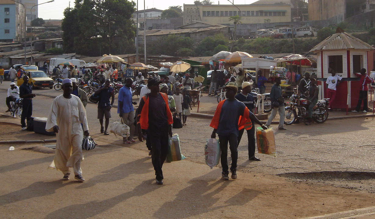 Carriers at the train station in Yaounde (Cameroon).